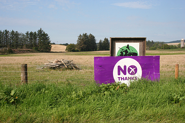 No Campaign Sign